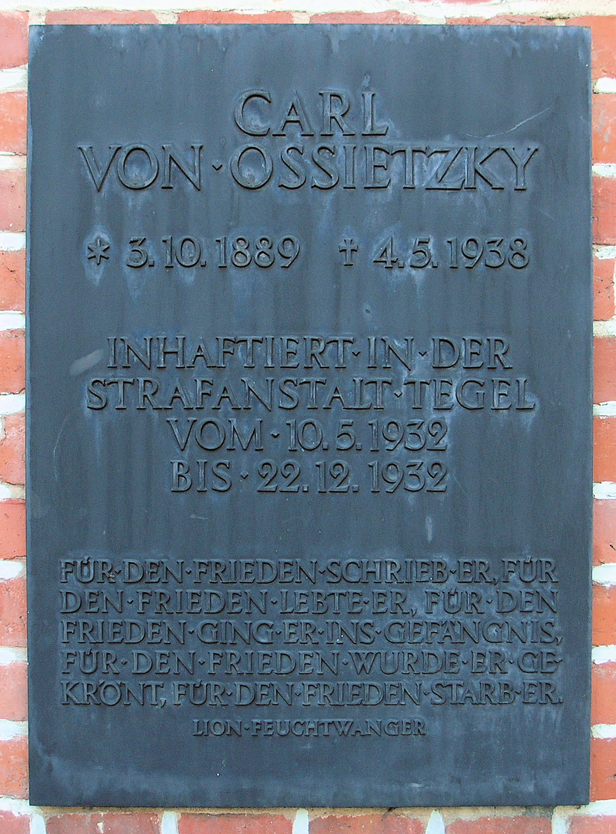 Memorial plaque, Carl von Ossietzky, Seidelstraße 39, Berlin-Tegel, Germany Koordinate:52°34′25″N 13°17′45″E / 52.57361°N 13.29583°E